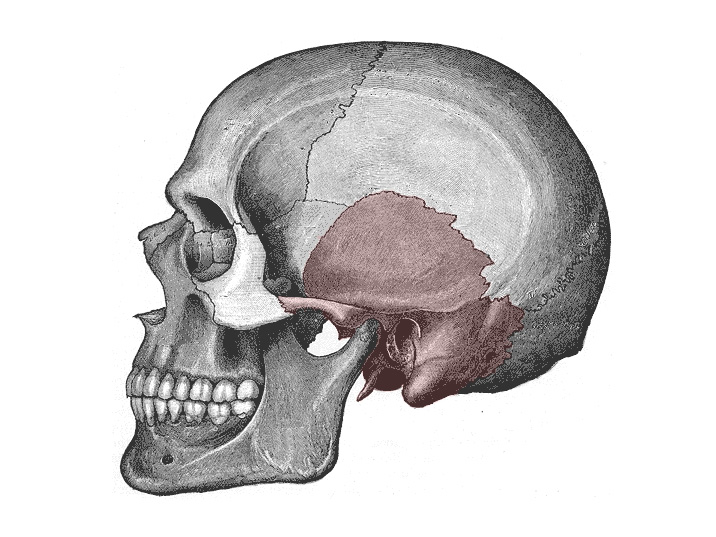 Human skull, temporal bone colored, adapted from Gray's Anatomy public domain image